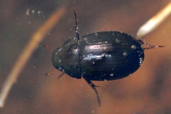 Hydrobius fuscipes from Commanster, Belgian High Ardennes.